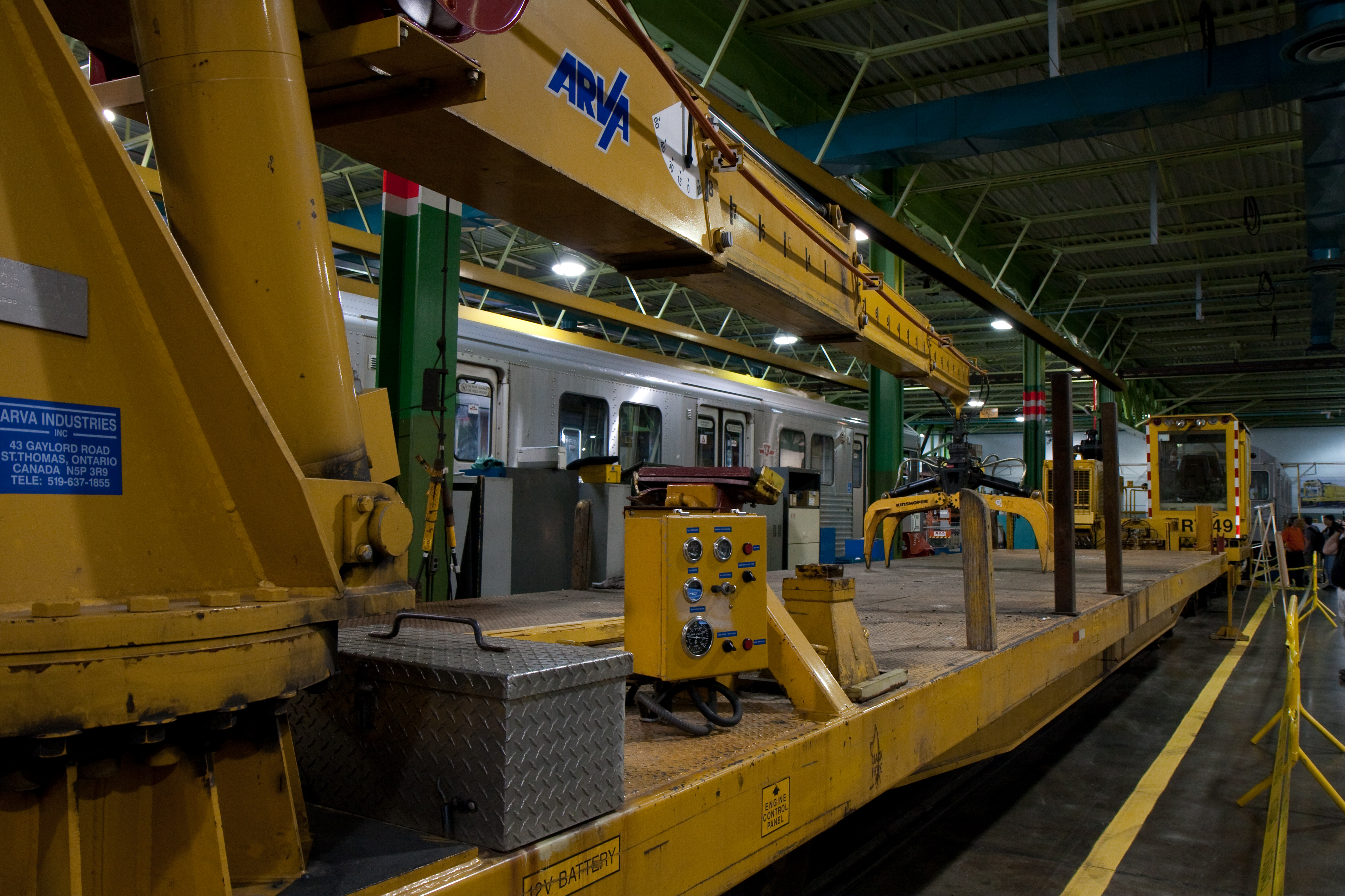 Maintence train can be used on subway and streetcar tracks.